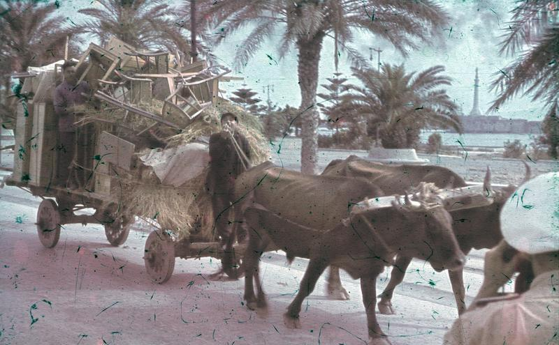 Information added by Wikimedia users. * Due sfollati a Messina. Fotografia di Horst Grund, luglio 1943.